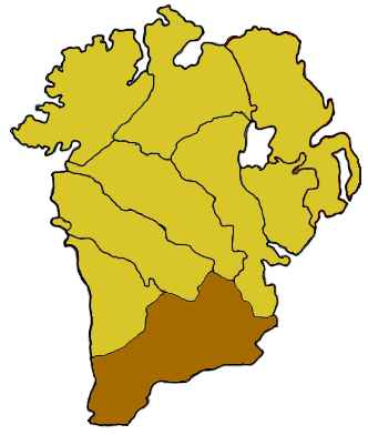 Catholic Diocese of Meath.